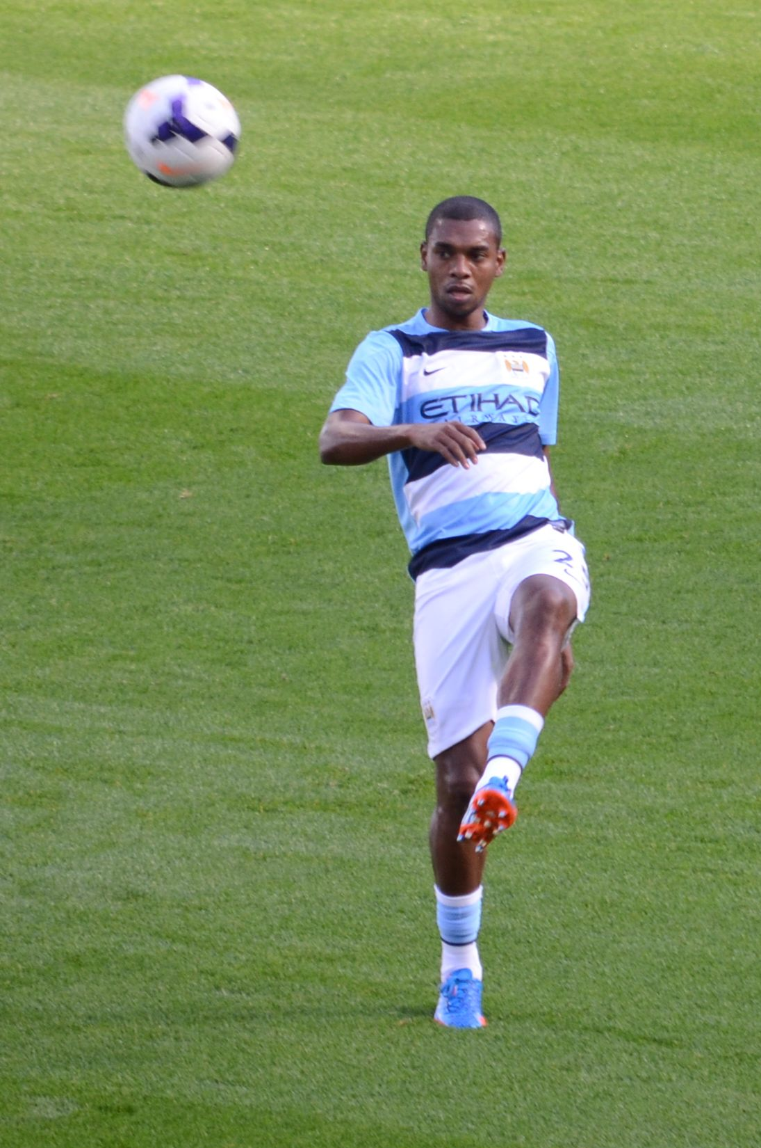 Fernandinho warming-up for Manchester City